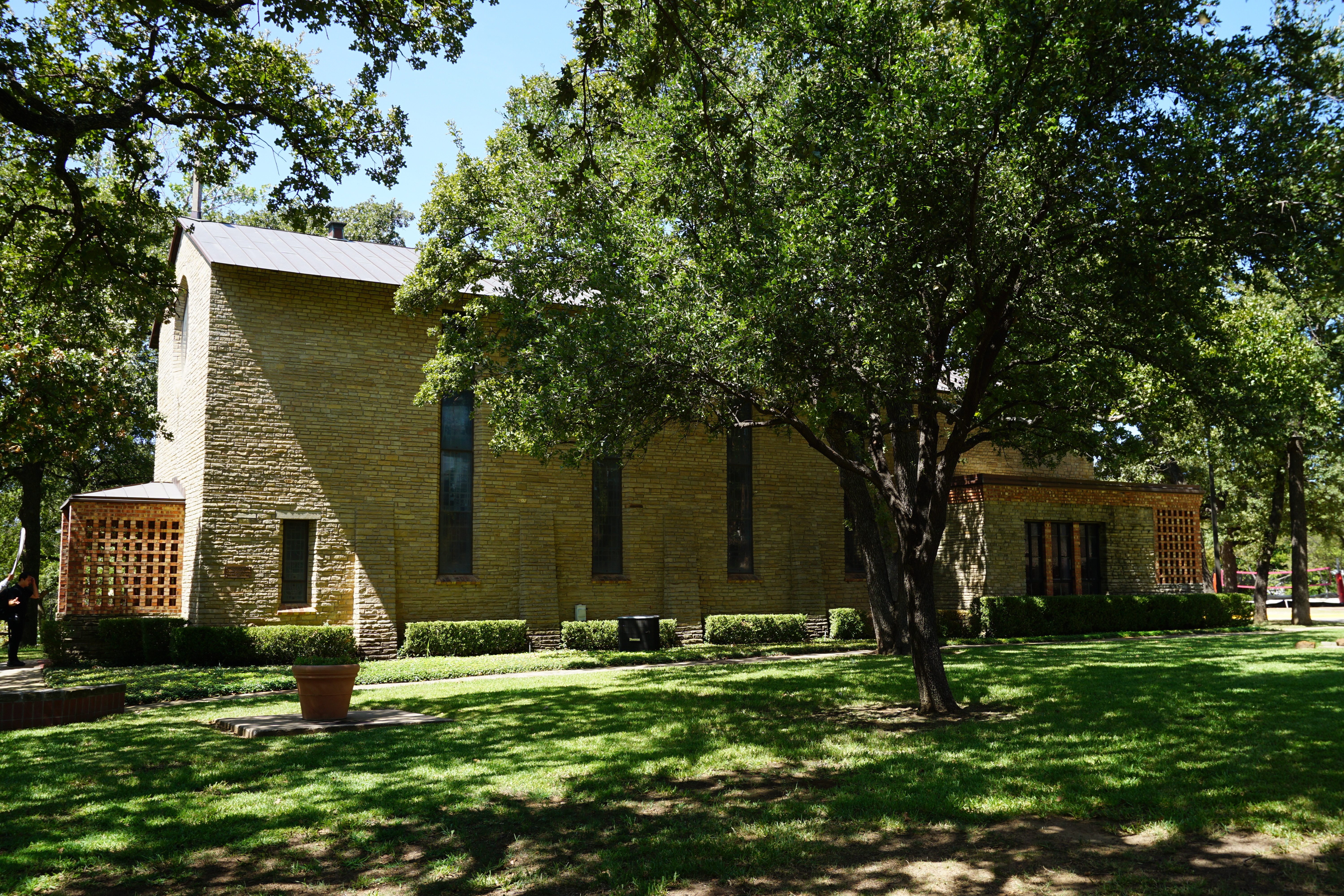 The Little Chapel-in-the-Woods on the campus of Texas Woman's University in Denton, Texas (United States).